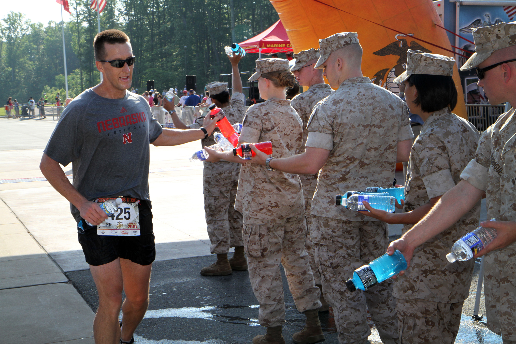 Runner Steven Meints accepts powerade from Marines with Headquarters & Service Battalion, Marine Corps Base Quantico, Va., after crossing the finish line of the Marine Corps Marathon Crossraods 17.75K June 12, 2010. The Marine Corps offered hospitality in the form of sports drinks, water and snacks to replenish the runners after the 11 mile ordeal.